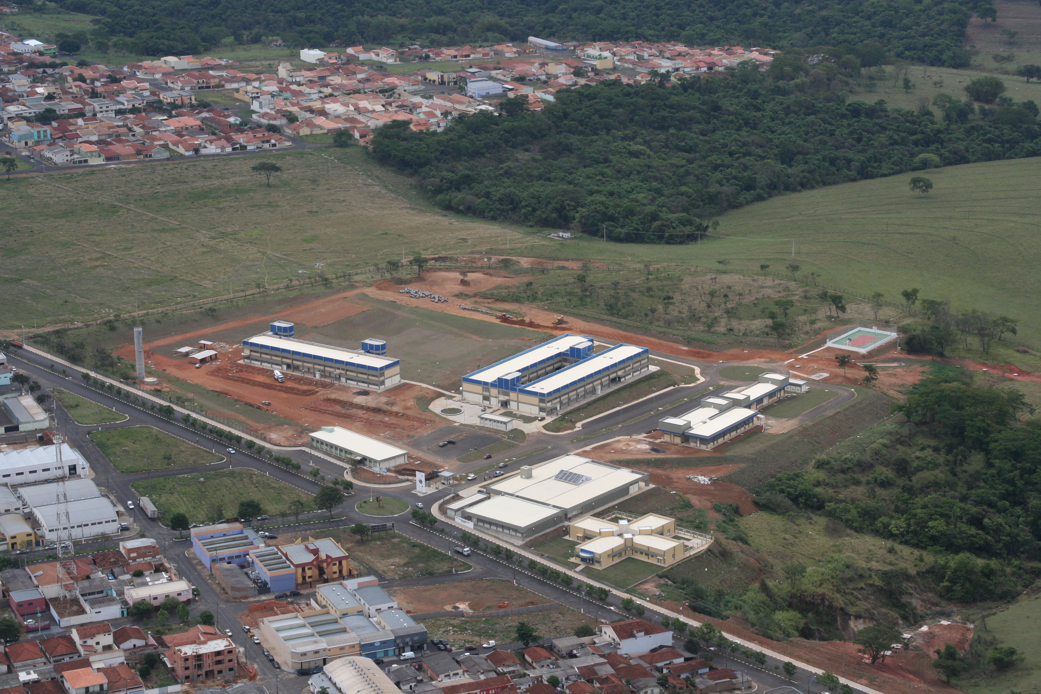 Aerial overview from the FHDSS Campus of the UNESP university in Brazil